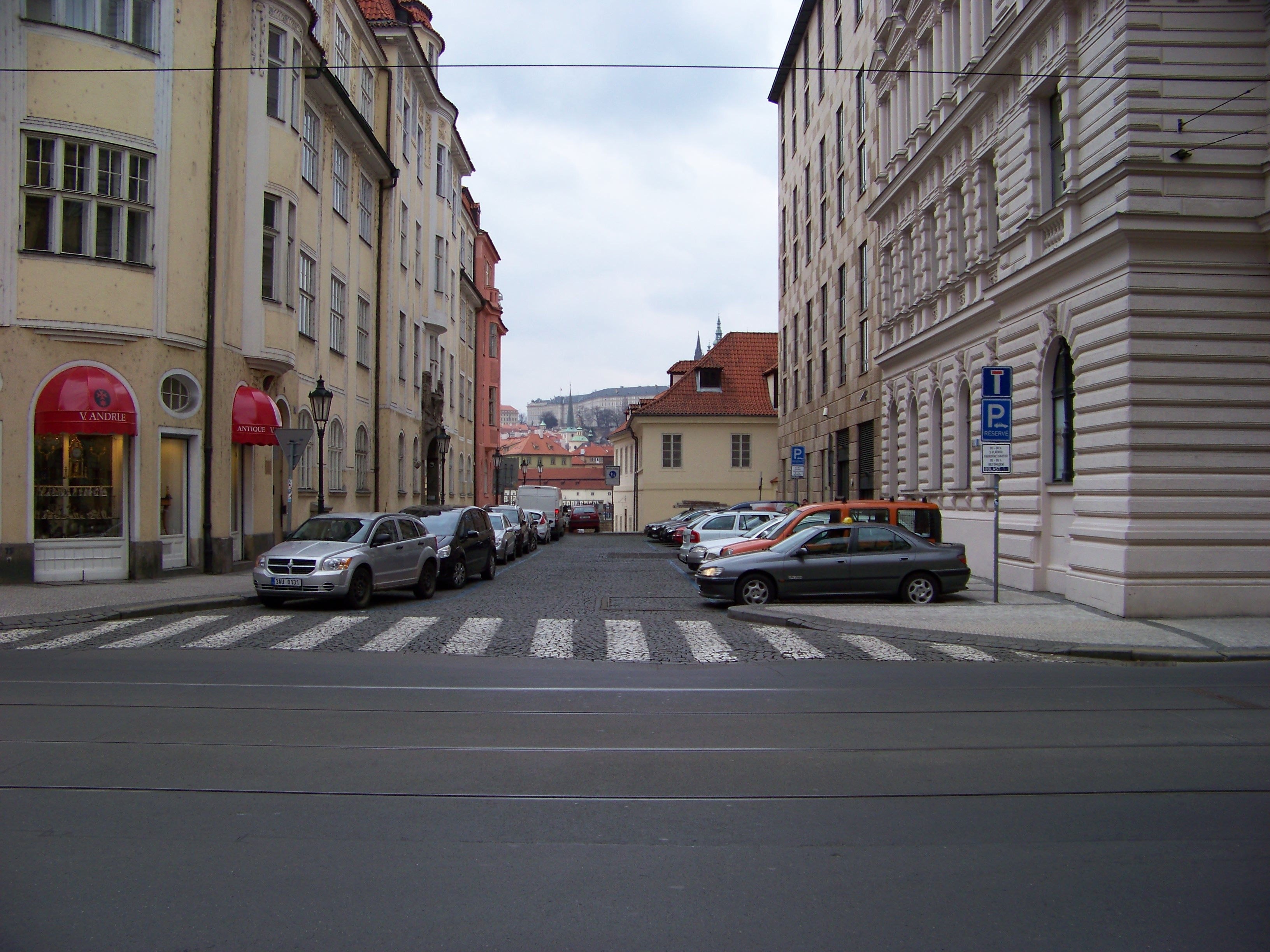 Prague-Old Town, Czech Republic. Platnéřská street, from Křižovnická street to Alšovo nábřeží.